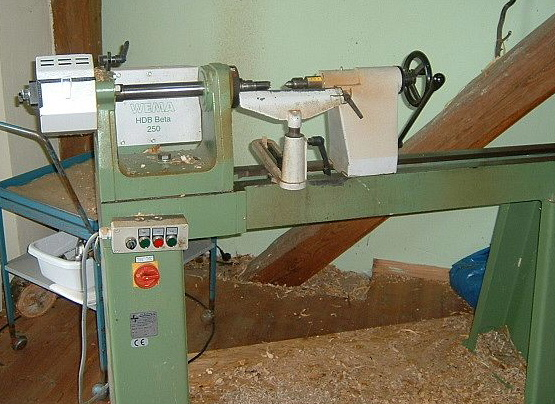 Wood-turning lathe)